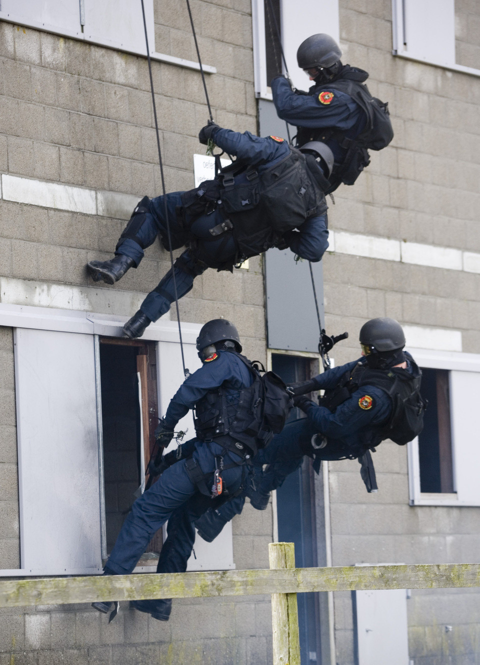 Training of the Unit Interventie Mariniers